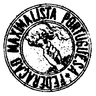 Logo of the Portuguese Maximalist Federation